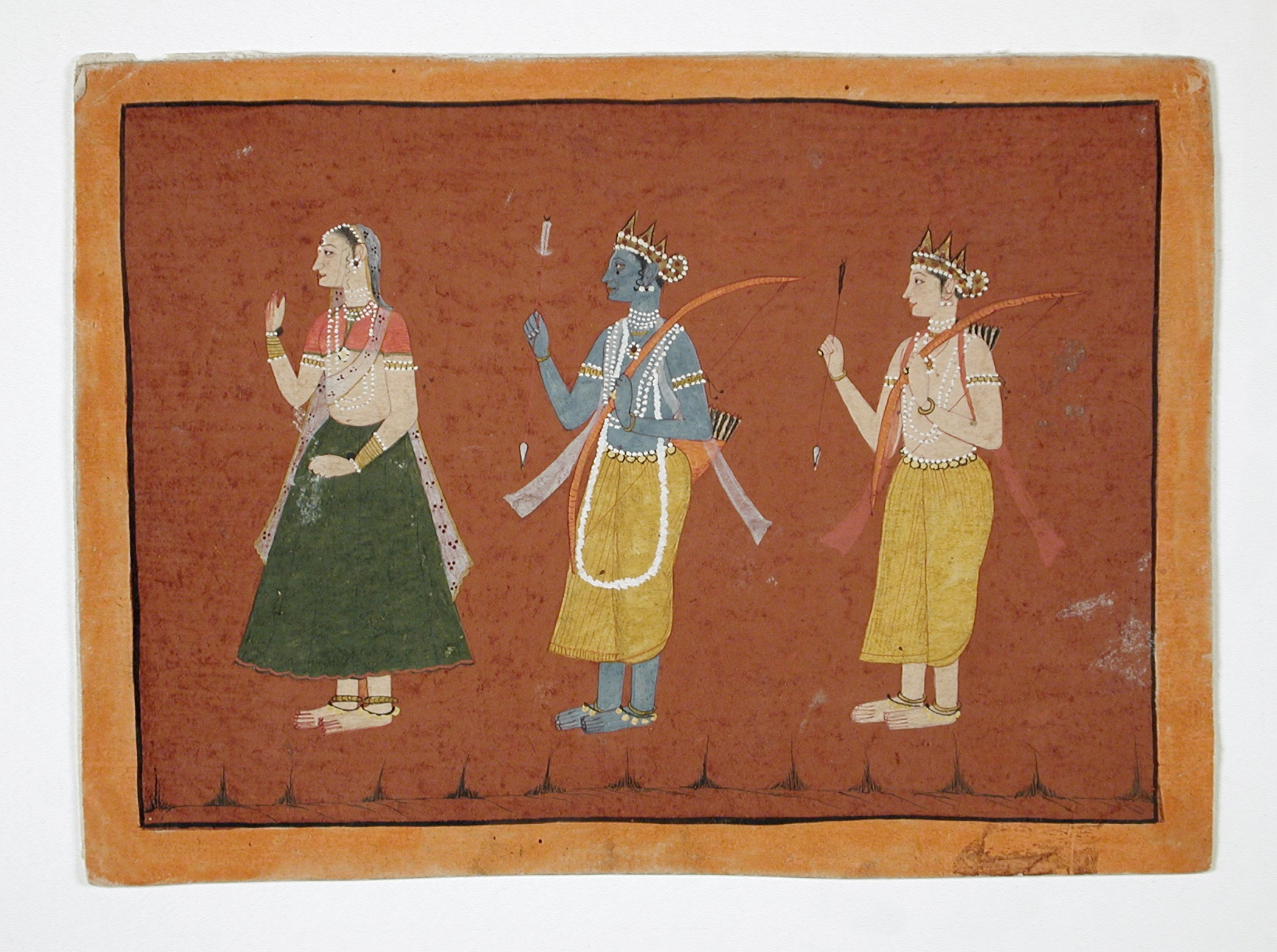 India, Himachal Pradesh, Bilaspur, circa 1685-1690 Drawings; watercolors Opaque watercolor and gold on paper Gift of Paul F. Walter (M.87.278.10) South and Southeast Asian Art